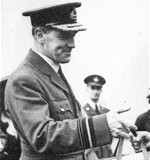 Description: Air Vice Marshal Sir Christopher Joseph Quintin Brand KBE, DSO, MC, DFC Source: [1] RAF site Post-Work: Licence: Unrestricted